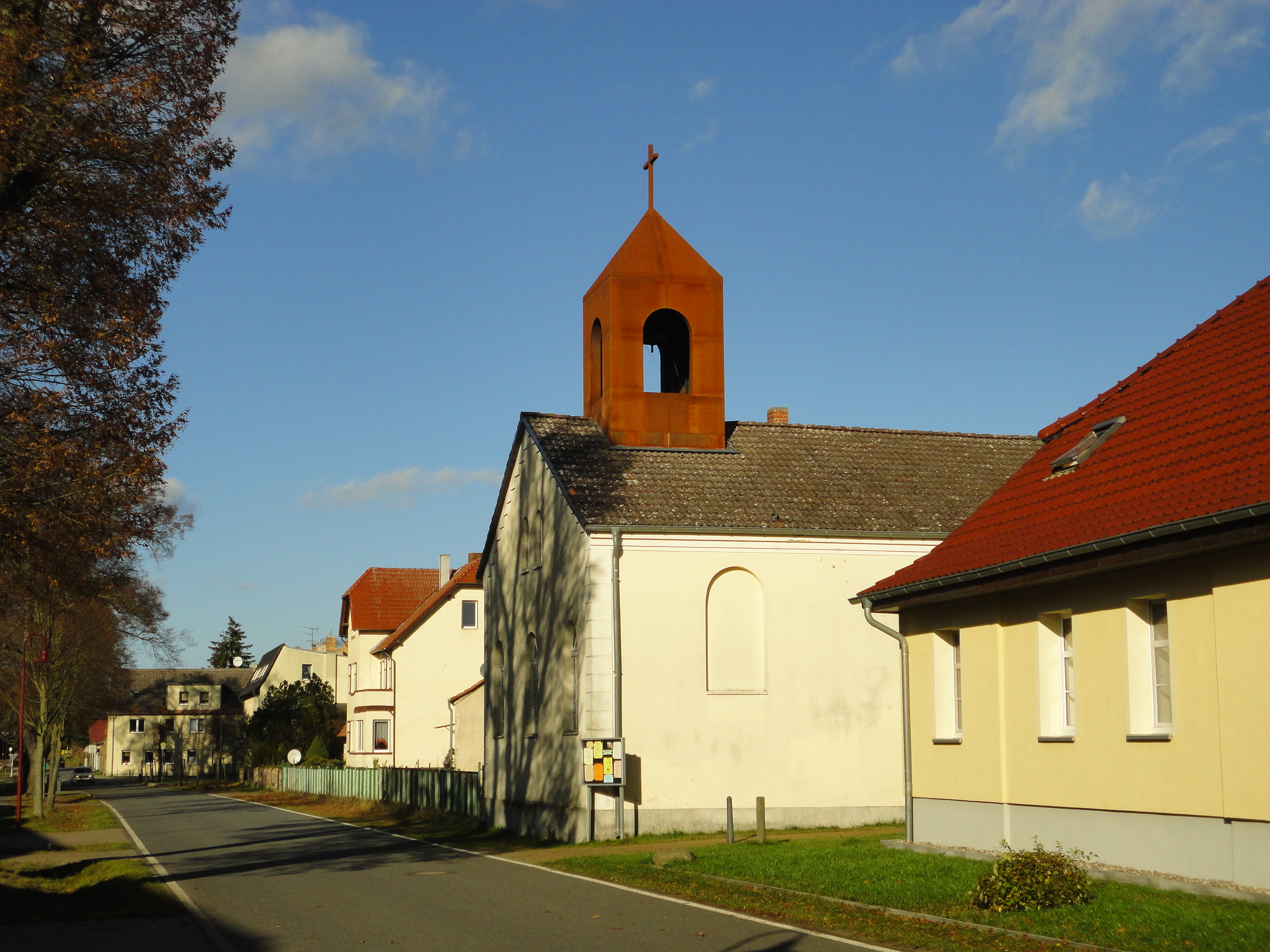 Southern view of Melchow church, Barnim district, Brandenburg state, Germany